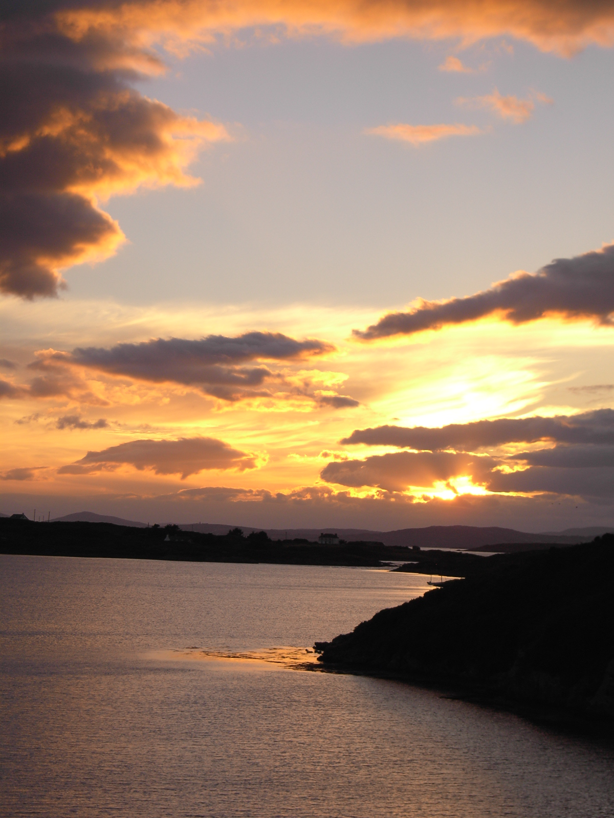 An Cunne Harbour, Sherkin Island summer sunset by Masha Dunaeva